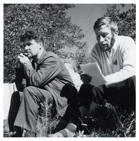 Photograph of the Finnish writers Kalle Heikkinen (1929–1989) and Veikko Haakana (1923–2018) at Ukonjärvi.